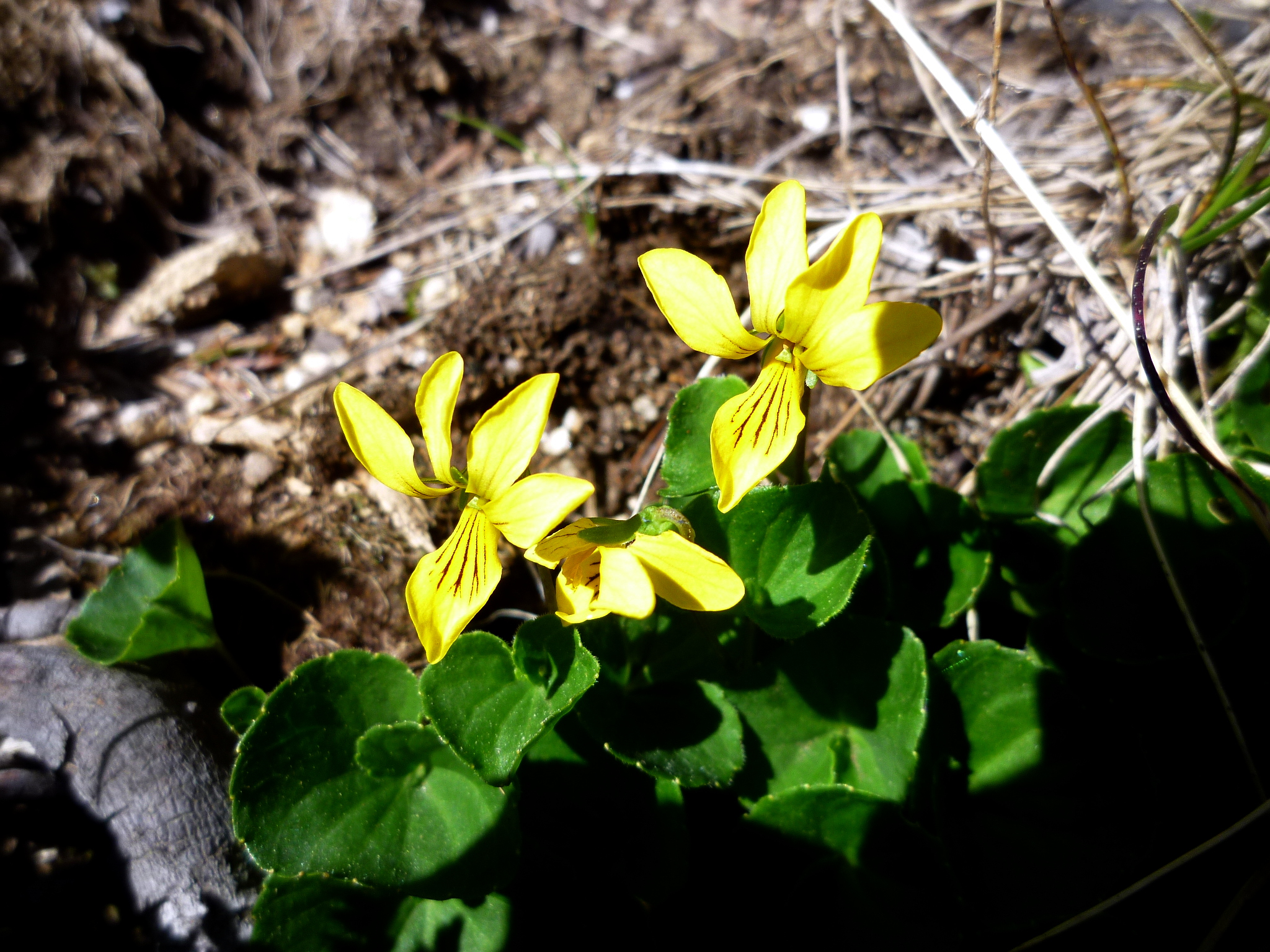 Viola biflora. In Cabdella (Pallars Jussà - Catalunya. To 2.240 m altitude